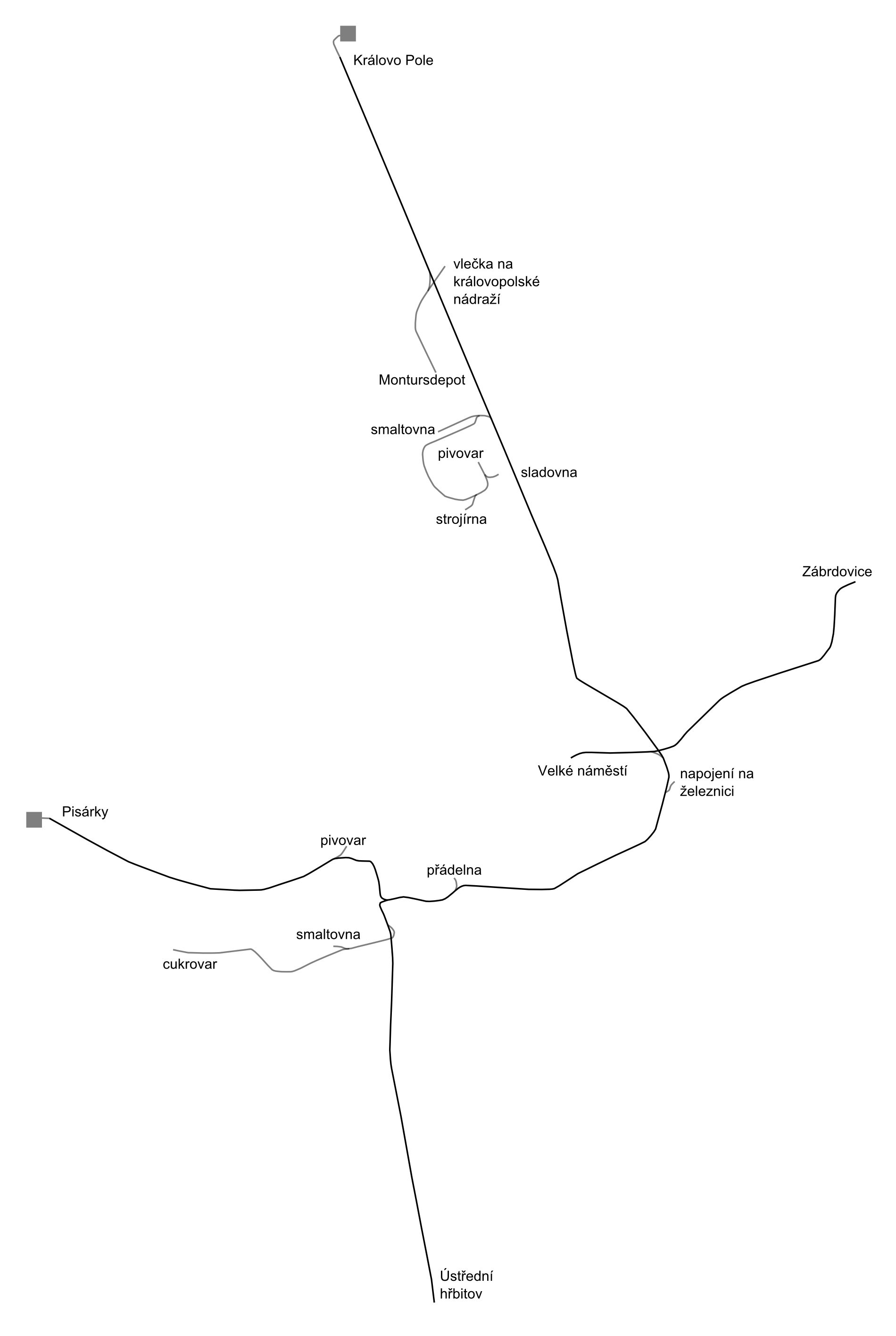 Tram network in Brno (situation in 1900), now Czech Republic